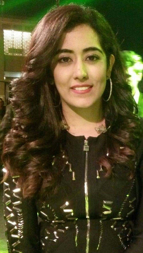 Jonita Gandhi in a studio